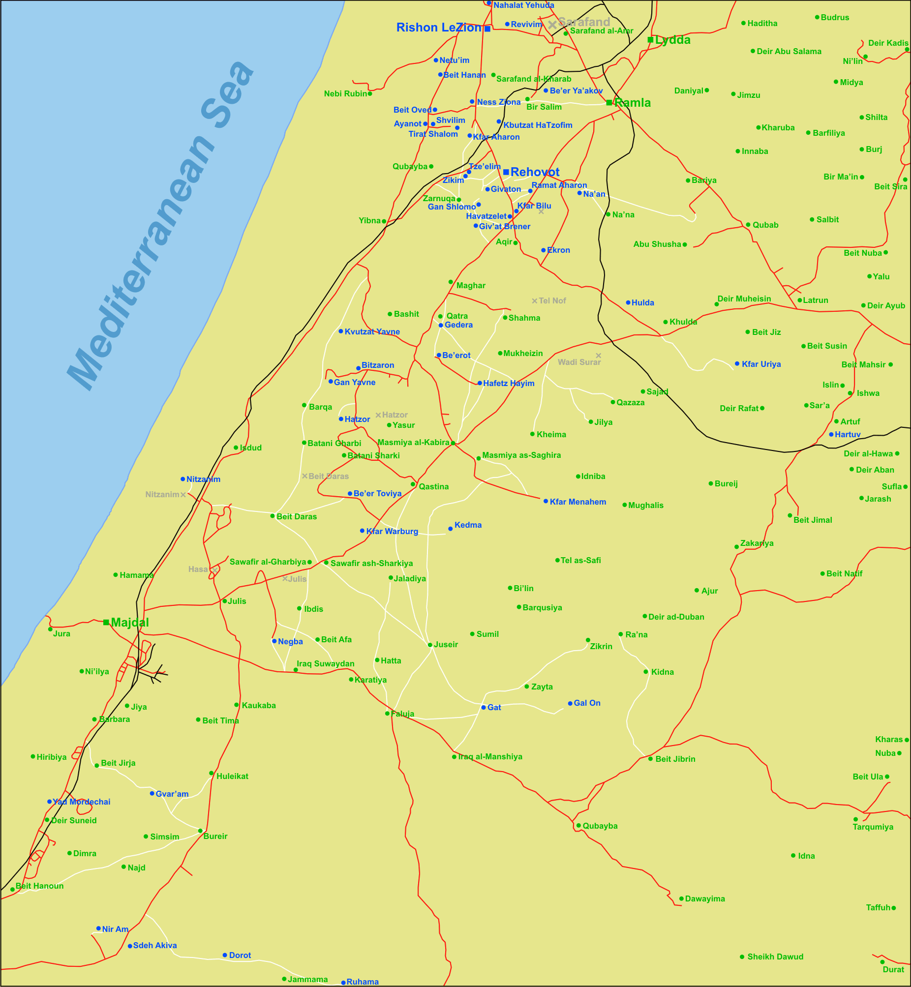 Orientation map of the south-central British Mandate of Palestine area, from Rishon LeZion in the north to Majdal in the south. Approximately true for 1947. This is an orientation map, which means that, while it should be geographically correct, there is no guarantee for this, and this is not its main purpose. There is also no guarantee that this map includes all localities without its boundaries, but an attempt was made to include most. Especially, certain localities (Jewish and Arab) were excluded in the Rishon LeZion–Rehovot corridor. In addition, many minor roads were omitted. Circle: village Square: main town/city Blue: Jewish Green: Arab X sign: British military base